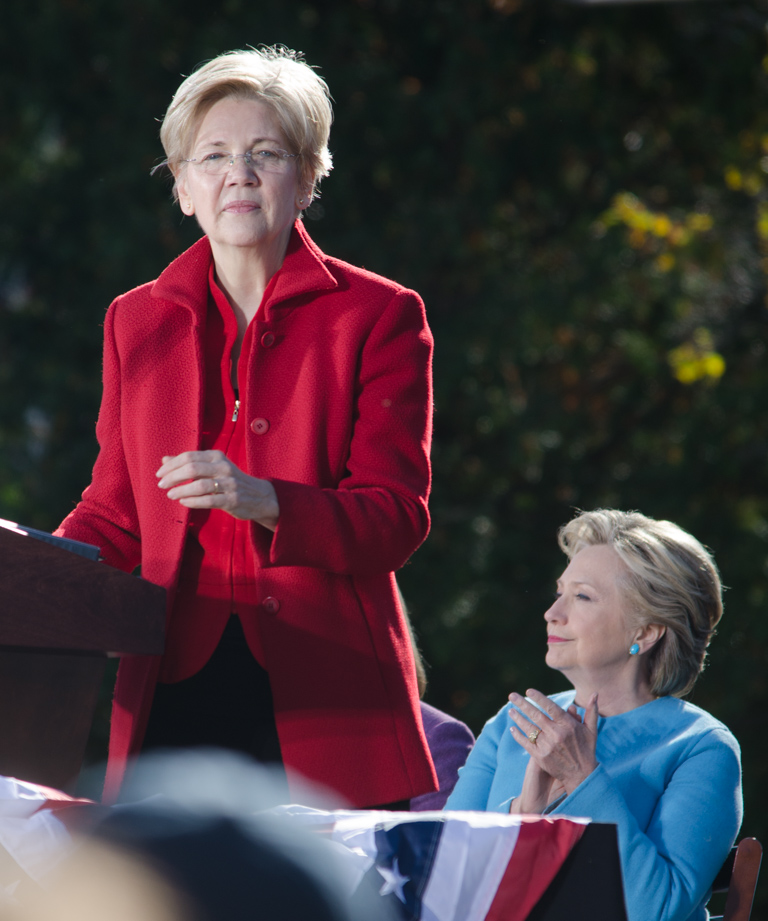 Elizabeth Warren campaigning in Manchester, NH for Hillary Clinton.